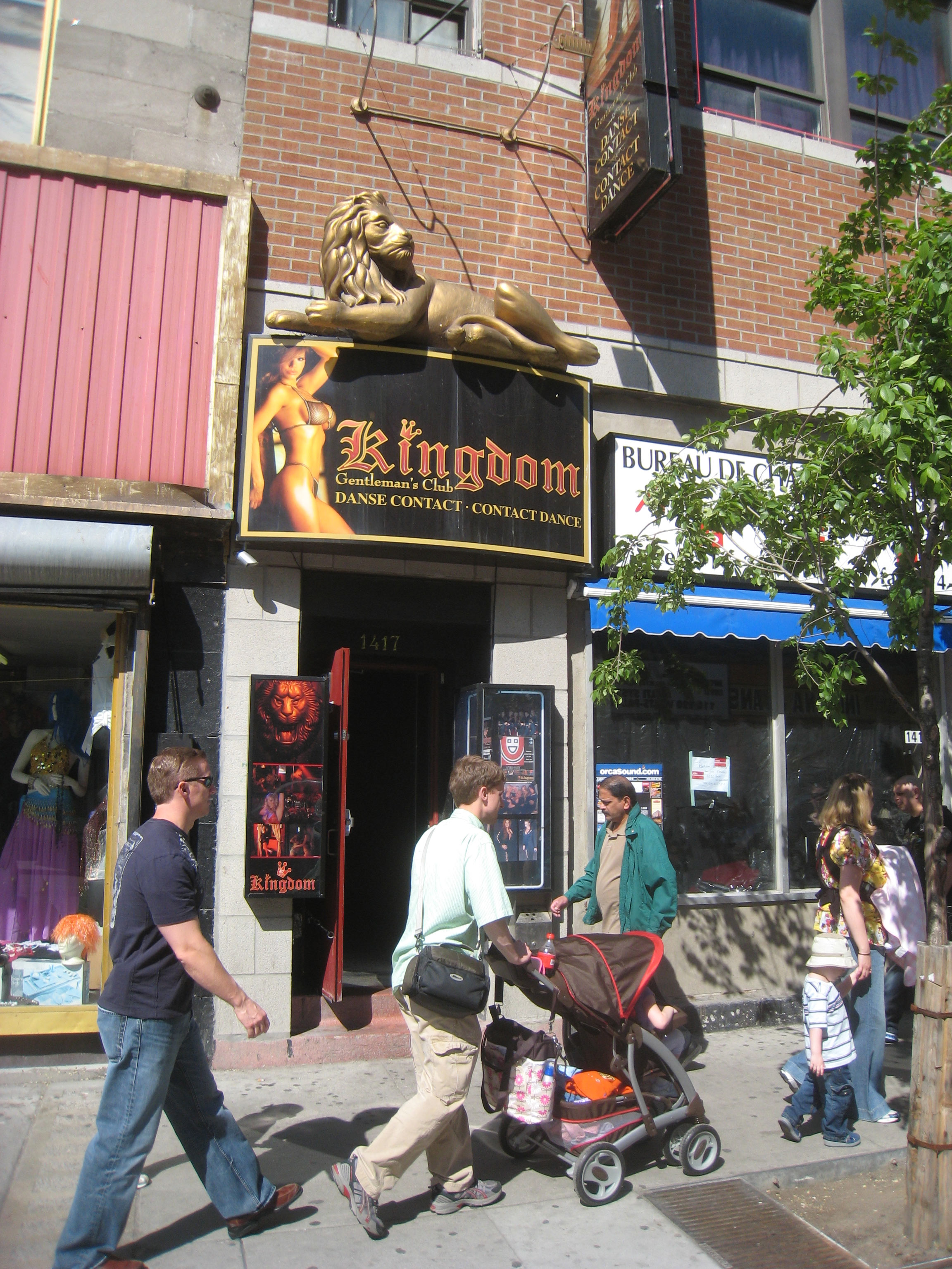 Entrance to the 2nd floor entertainment venue located at 1417 St. Lawrence Blvd. in Montreal. The Au Faisan Doré cabaret was located here in the late 40s. It had become, in May 2009, a female erotic dancers bar, the Kingdom Gentlemen's Club.